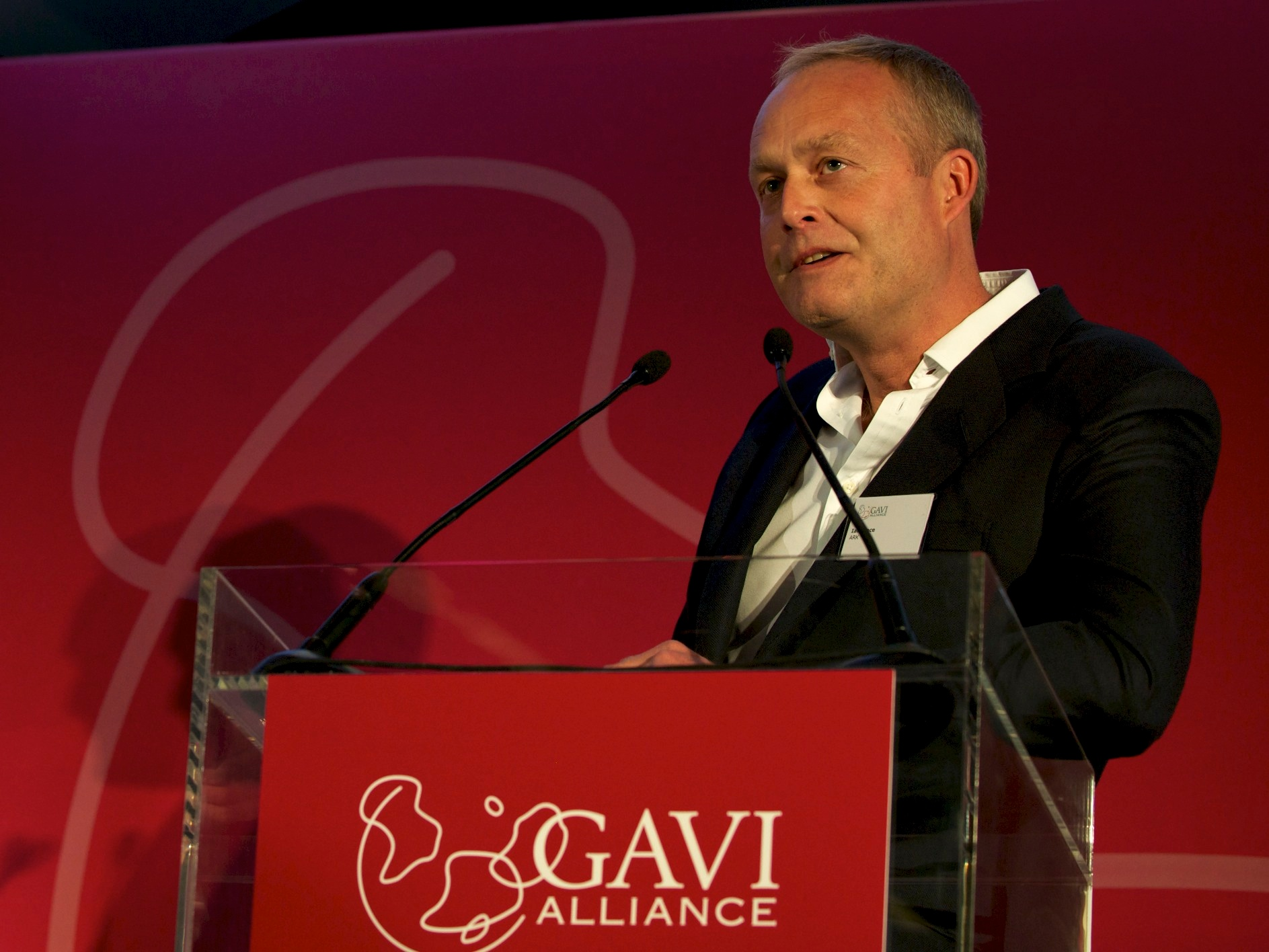 Ian Wace, Chief Executive, ARK (Absolute Return for Kids), speaking at the launch of the GAVI Alliance immunisations pledging event in London, 12 June 2011 Picture: Ben Fisher/GAVI Alliance Terms of use This image is posted under a Creative Commons - Attribution Licence . You are free to embed, download or otherwise re-use it, as long as you credit the source as 'Ben Fisher/GAVI Alliance'.